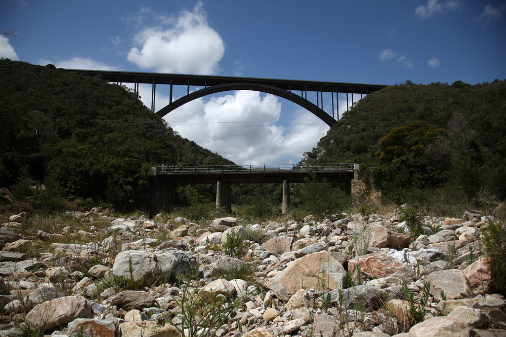 R102 and N2 Van Staden's River bridges